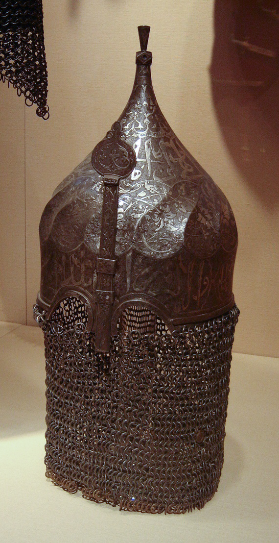 Helmet, steel. Engraved and damascened with silver. 15th century Aq-Quyunlu/Shirvani period. Iran. At least one of the helmets in this collection bears the name Farrokh-Siar, Shirvani ruler 1464-1501.